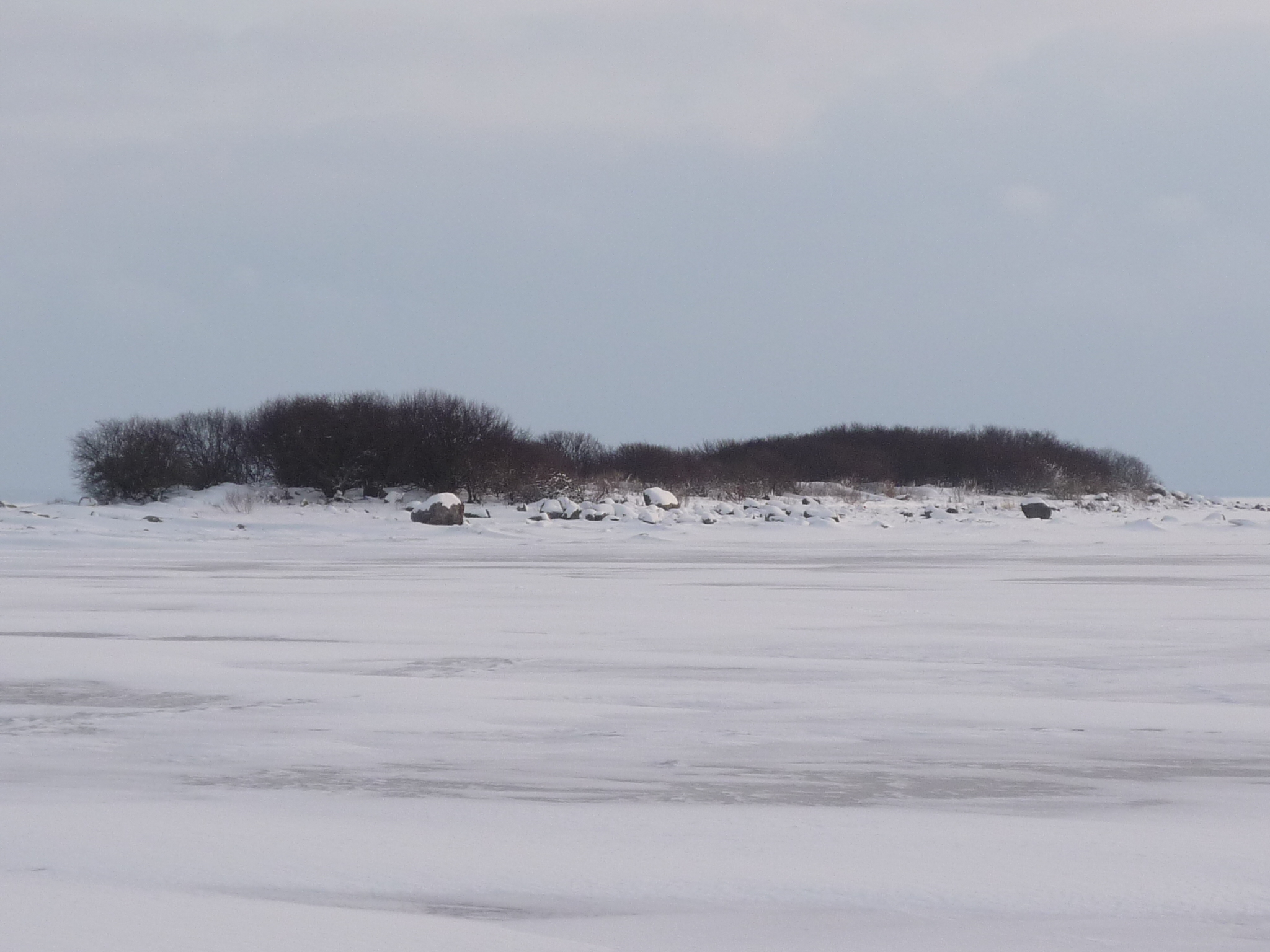 Small island Hanerahu near Hiiumaa. Winter 2009. View from NW.